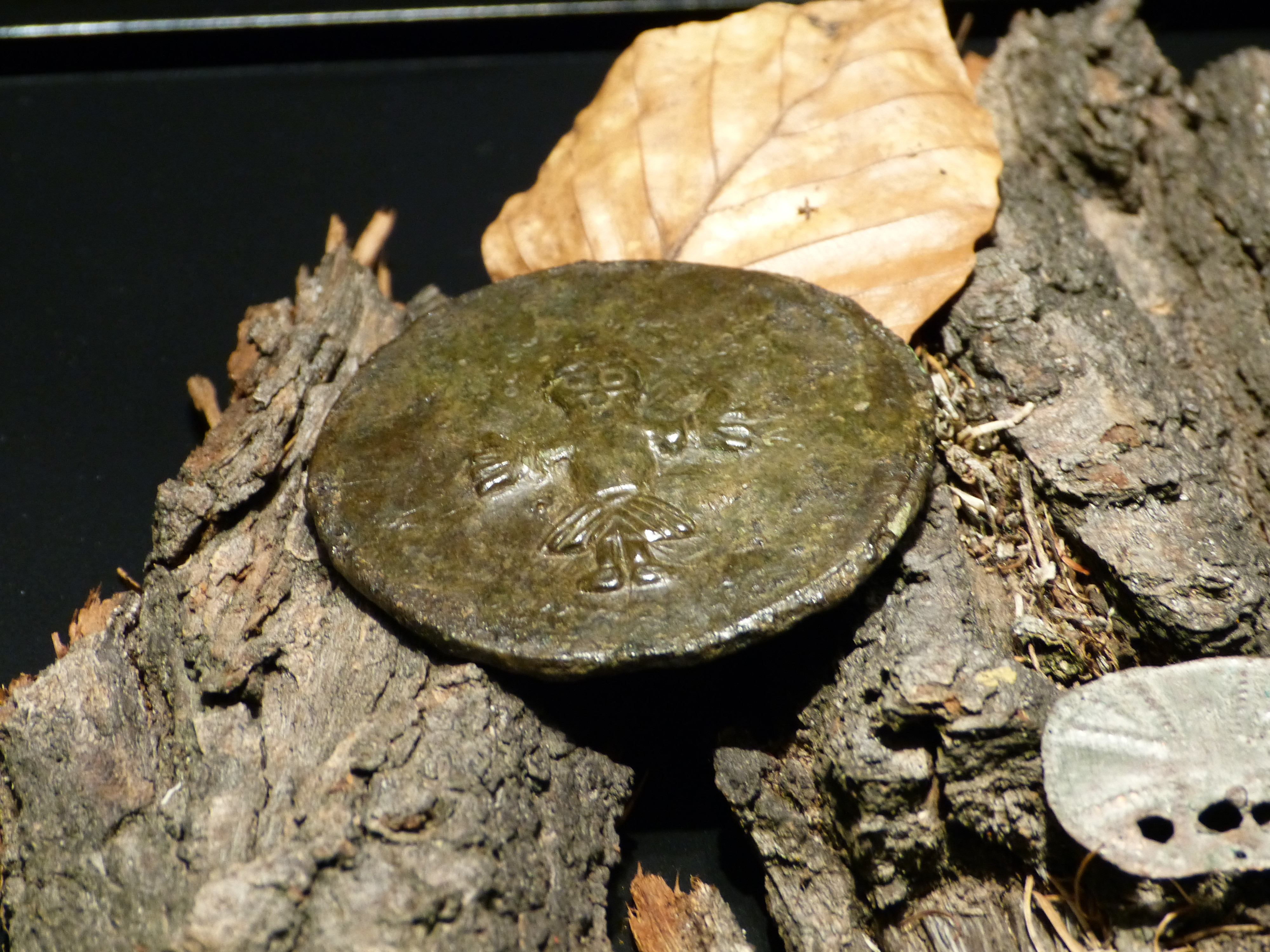 Groß Raden ( Mecklenburg ). Archaeological museum: Medieval application with relief of Jesus Christ, from Parchim.